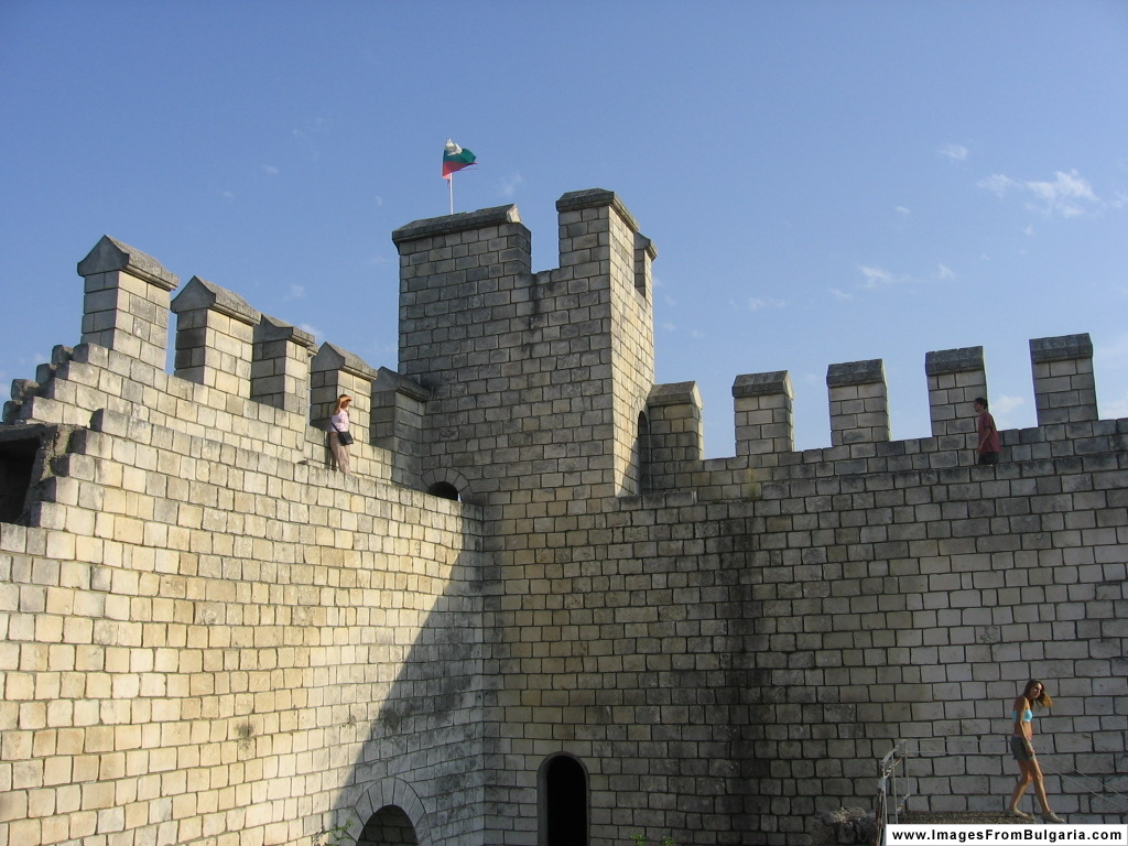 Shumen Fortress, Bulgaria